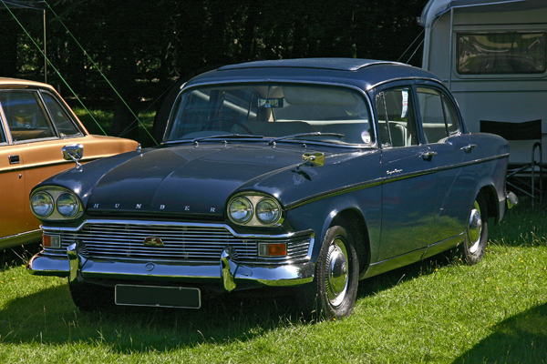 In 1960 the Series III Humber Super Snipe was introduced and easily recognisable by its four headlamps, probably the first time a British car was given four headlamps